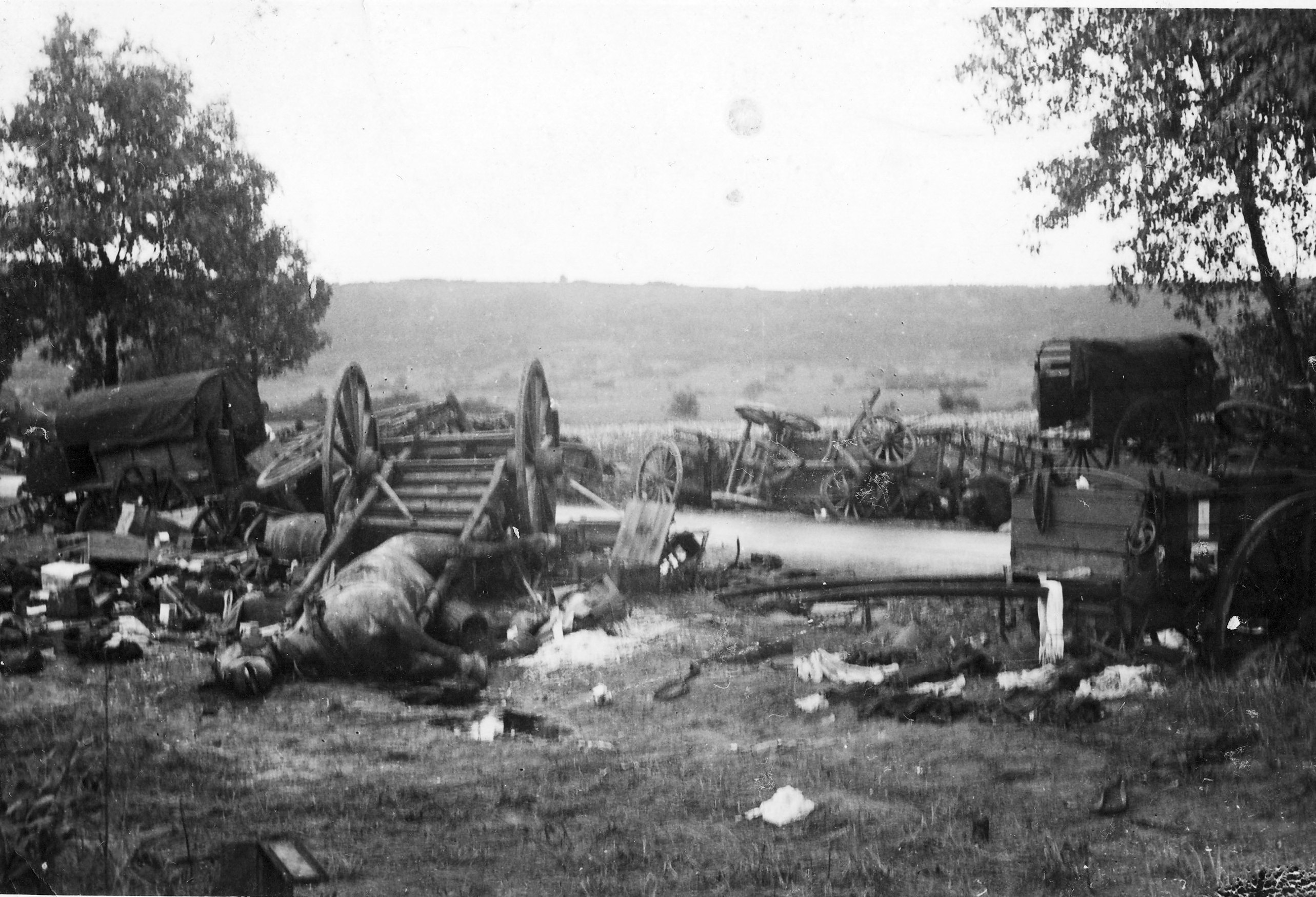 Likely Polish road after German air raid during September of 1939.